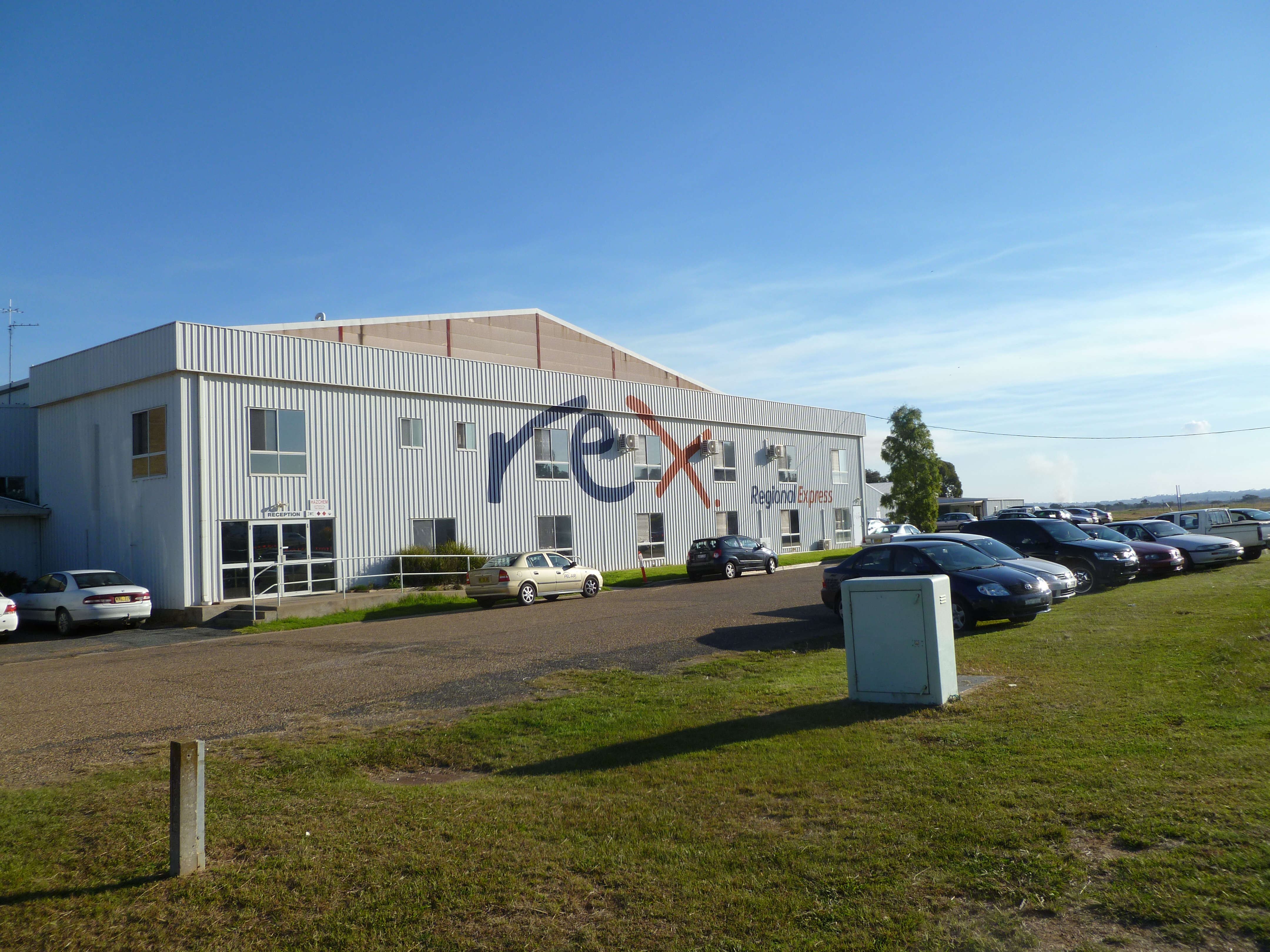 Front of Regional Express' Wagga Wagga engineering base.